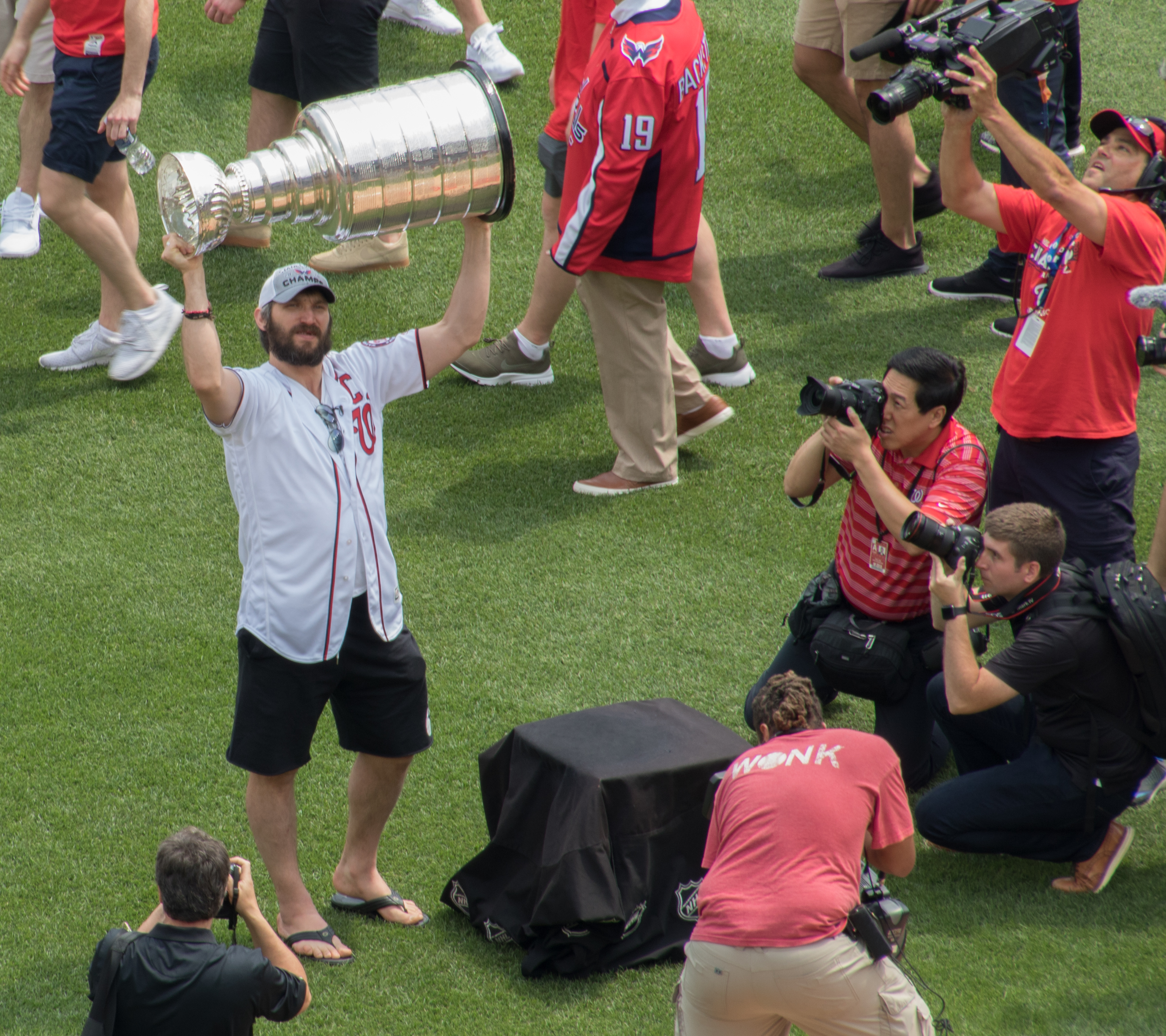 Alex Ovechkin holding 2018 Stanley Cup at Nationals Park